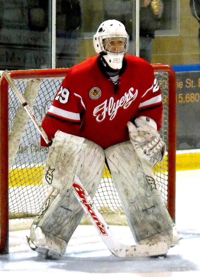 This photo was taken by Devan Mighton during the 2014-15 GOJHL season.